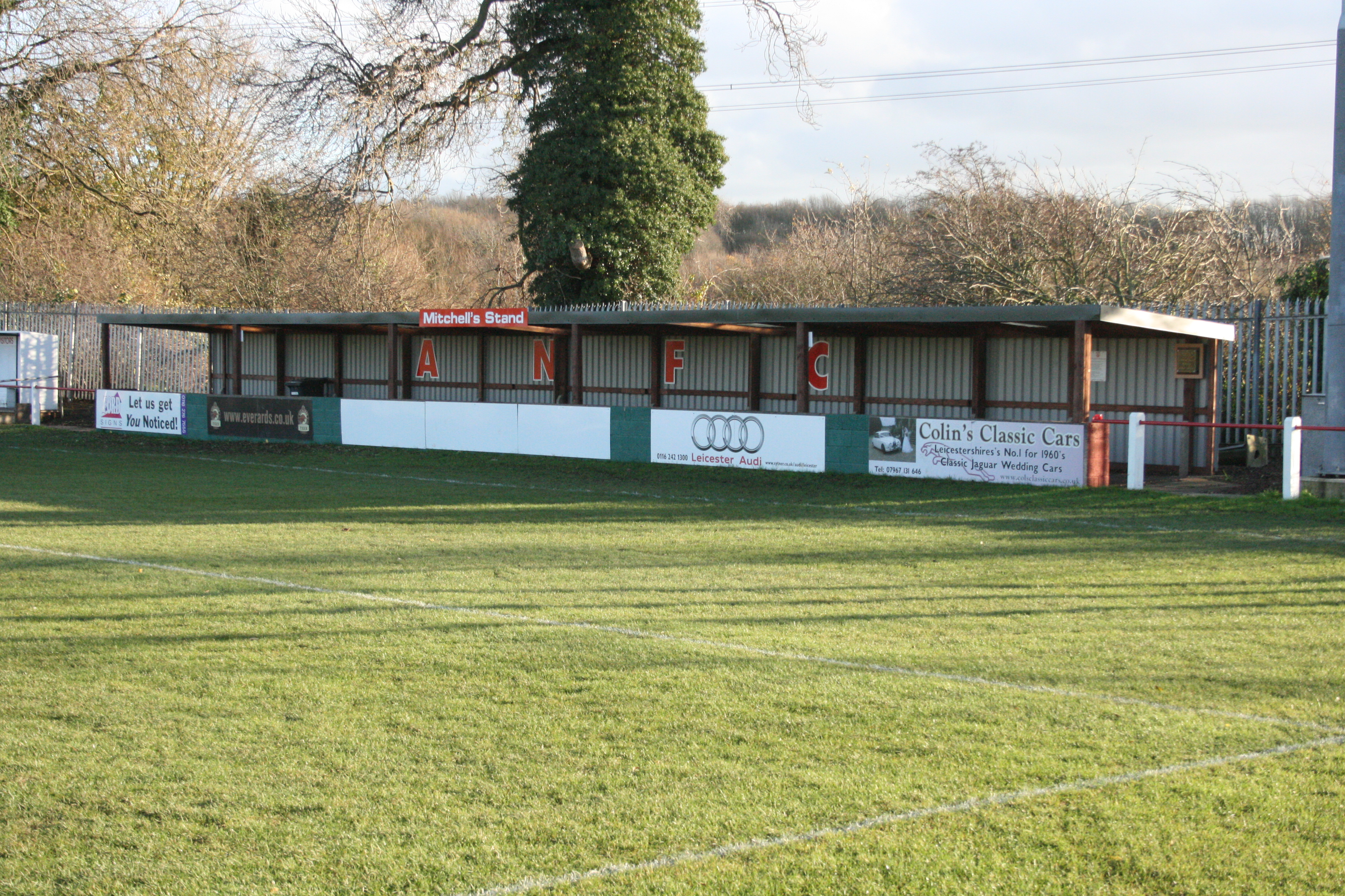 Mitchell's Stand - Cropston Road, Anstey. Home of Anstey Nomads Football Club